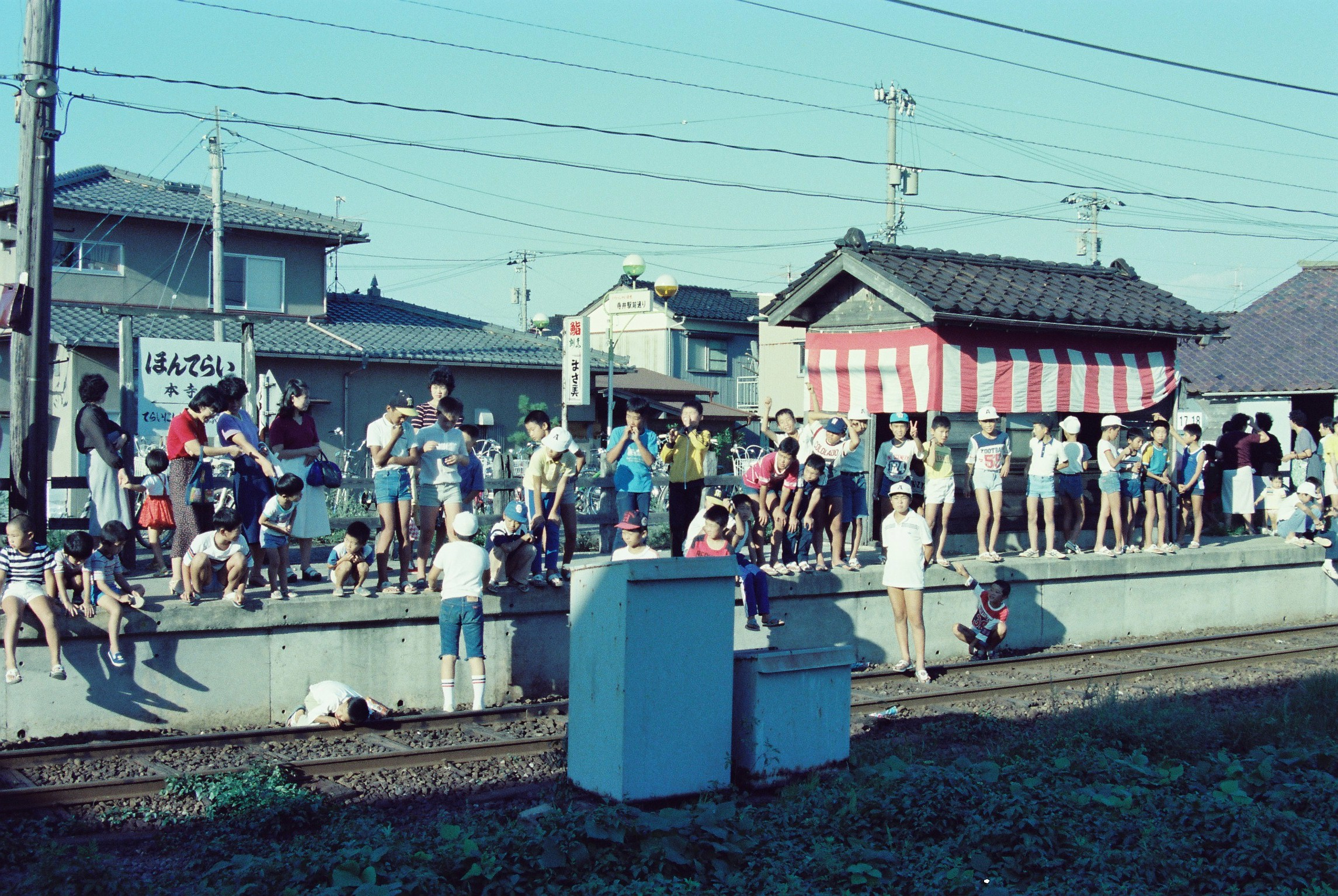 北陸鉄道能美線本寺井駅